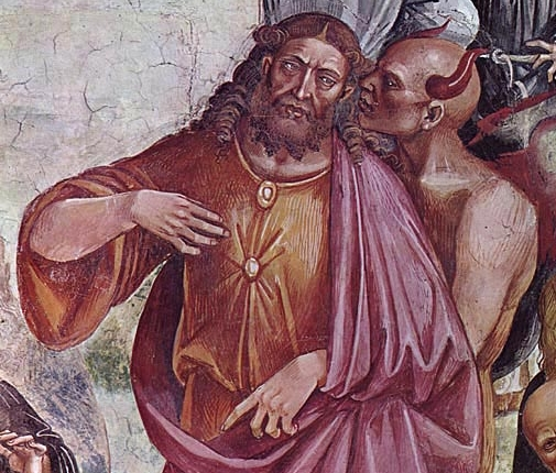 Luca Signorelli's 1501 depiction of the face of antichrist, from the Orvieto Cathedral